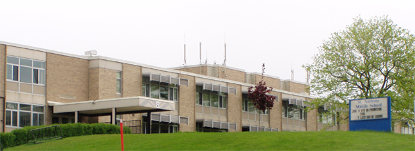 The west side of the middle school and high school in St. Anthony, Minnesota, in 2006